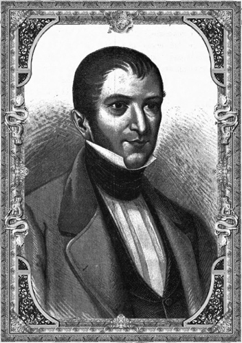 Self-portrait of Nicolás Bravo Rueda, Lithograph (1870-1907).